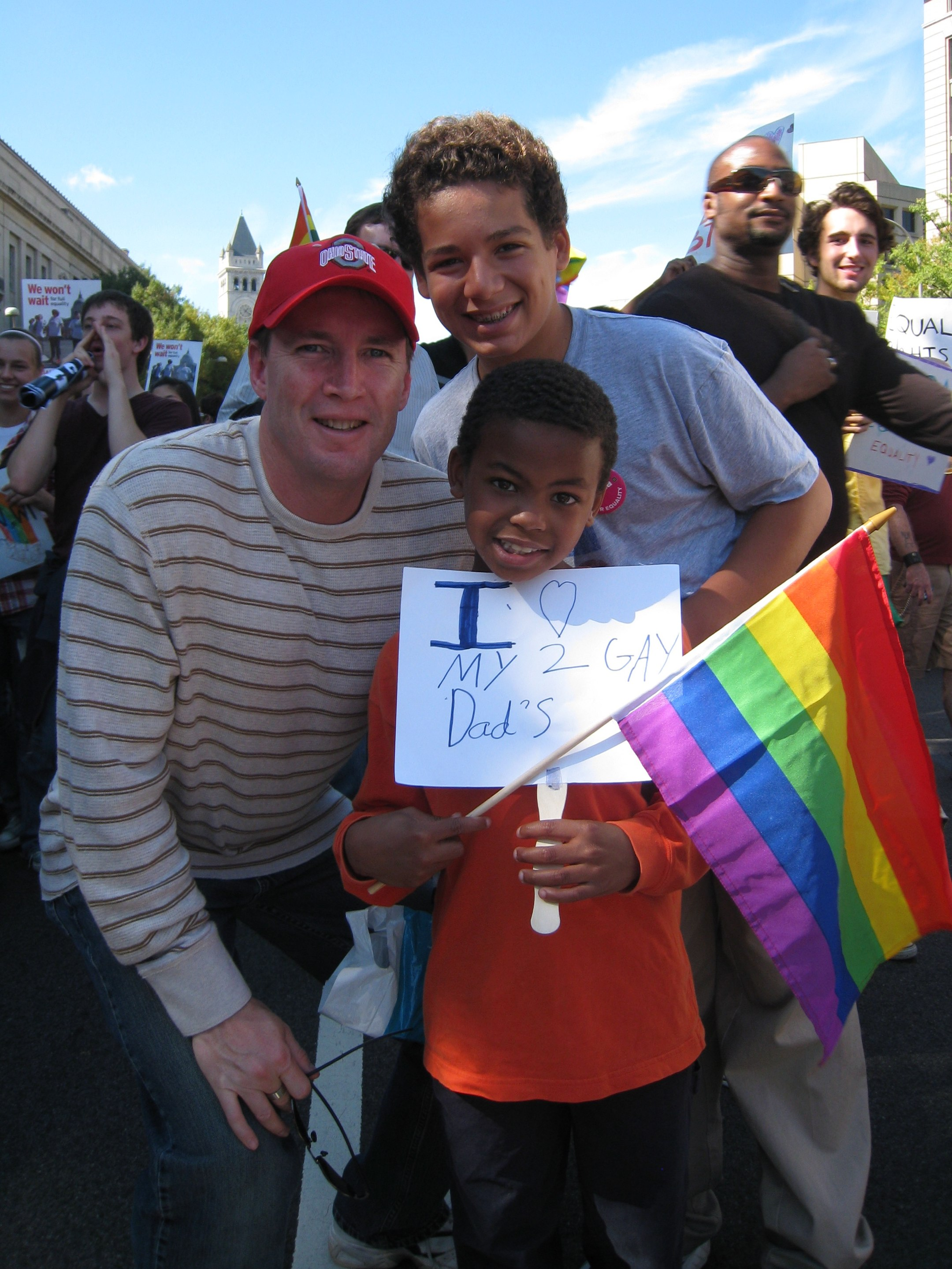 I love my 2 gay dad's